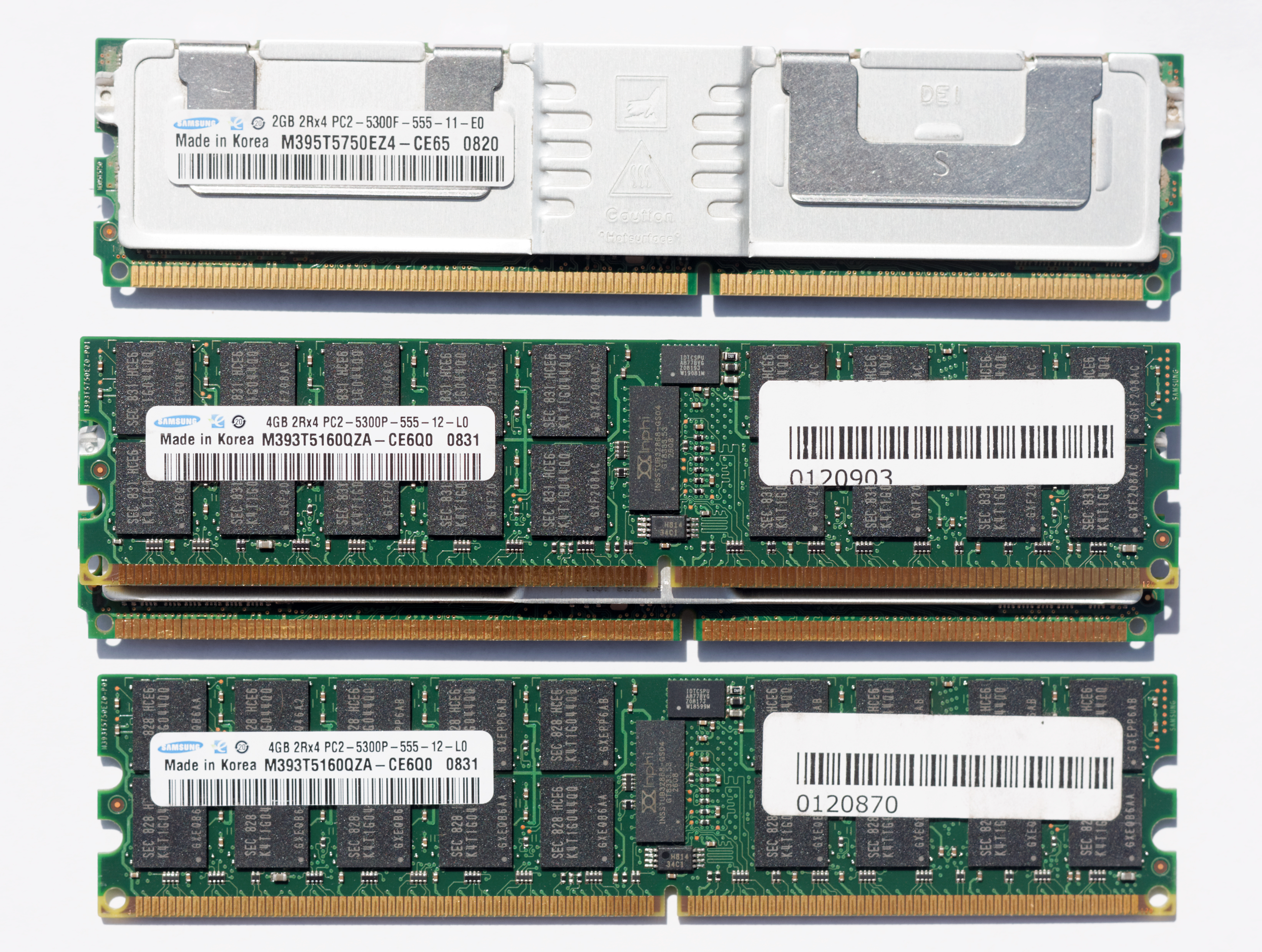 A DDR2 'Parity' DIMM on top of a DDR2 'Fully Buffered' DIMM and their pairs on top and bottom respectively